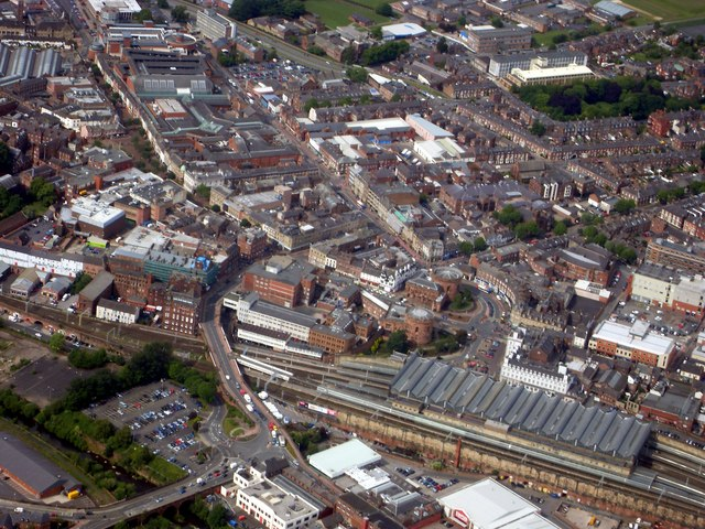 Carlisle Railway Station from the Air Carlisle Railway Station is prominent in the lower area of the photograph, while directly above it are the circular court buildings of the Citadel. A Stagecoach Cumbria bus is visible in The Crescent behind the Citadel while another is visible in Lowther Street. The Lanes Shopping Centre is also prominent in this view.